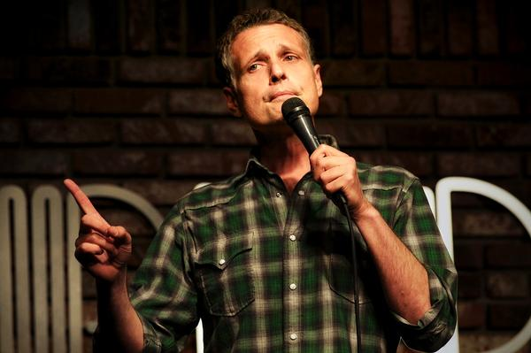 Valeriano at the Improv